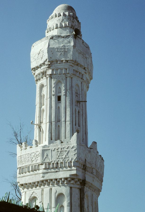 al-Muttabia Mosque, Taiz